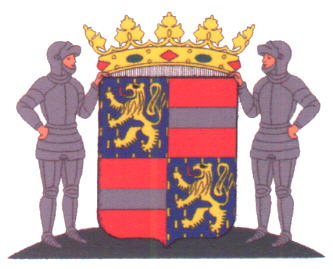 Coat of arms of Zwevegem municipality.